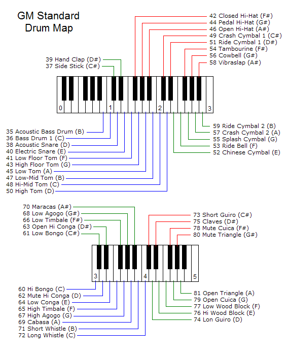 GM Standard Drum Map on the keyboard.